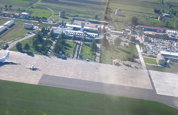 The old terminal of Tirana's Mother Teresa Airport, Albania